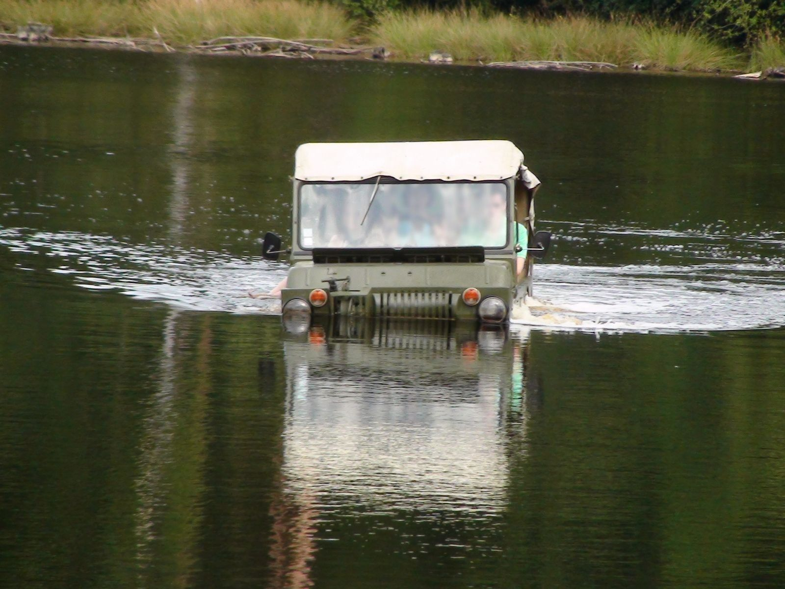 LuAZ 967-M in water